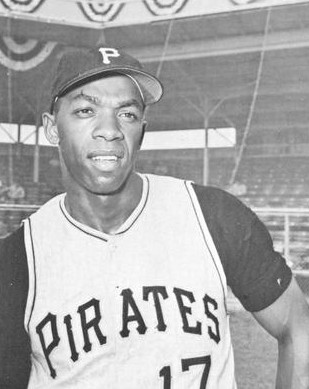 Professional baseball player Donn Clendenon